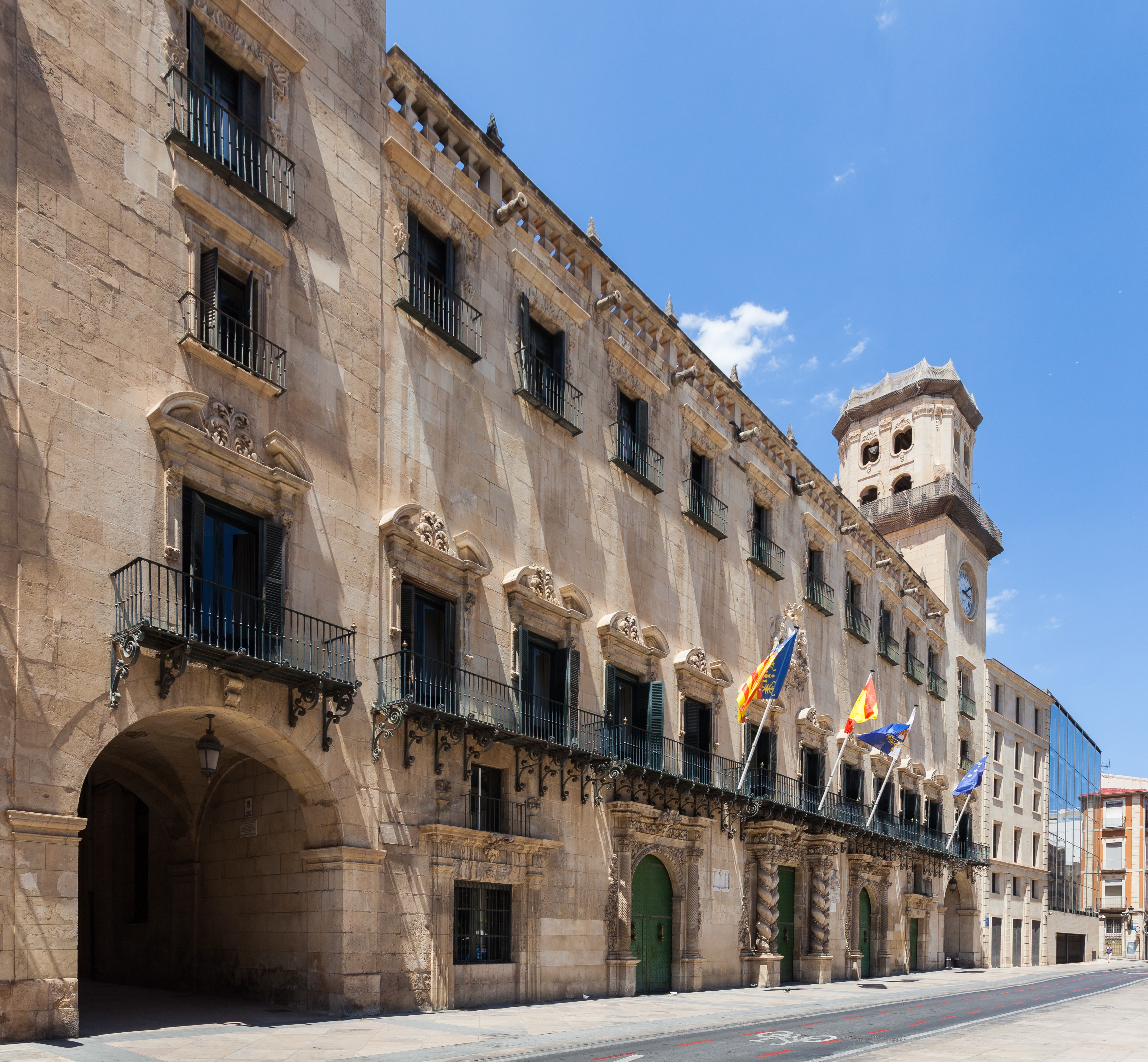 Alicante town hall, Spain